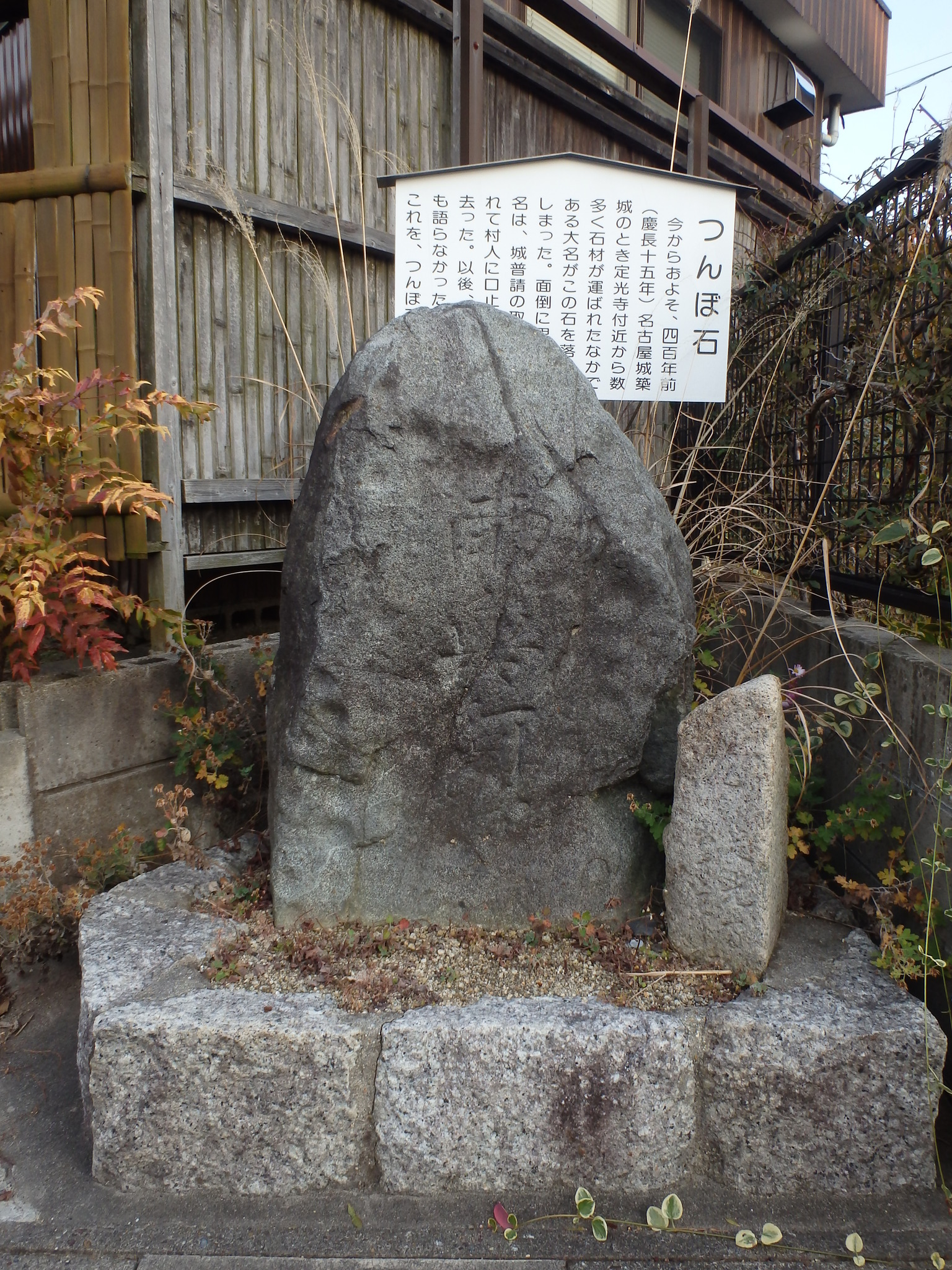 Tsunbo-ishi is a stone of historical object in Owari-asahi, Aichi, Japan.